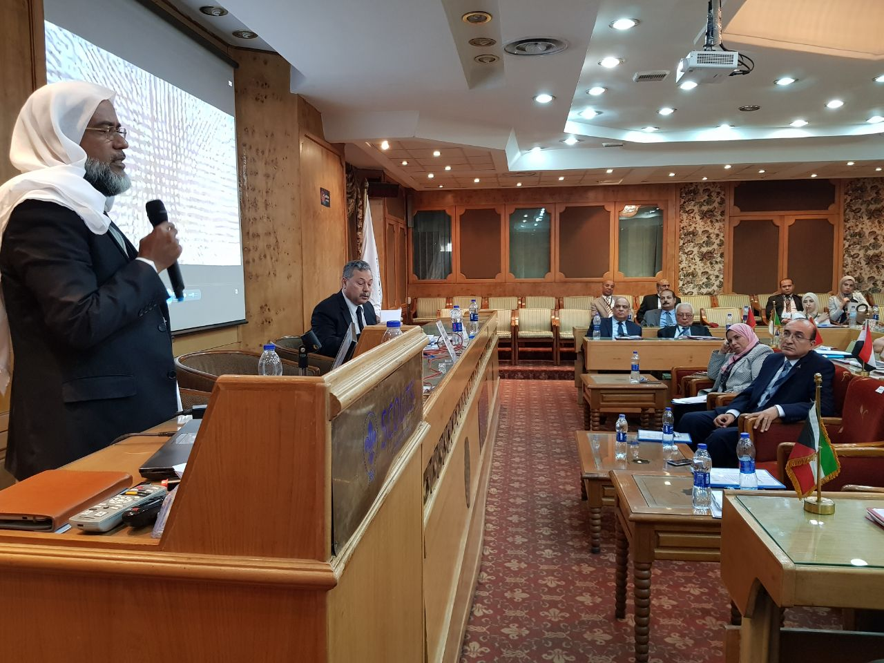 CIC Coordinator, Abdul Hakeem Faizy addressing the Executive Board meeting of Islamic Universities League in Alexandria, Cairo, in April 2018